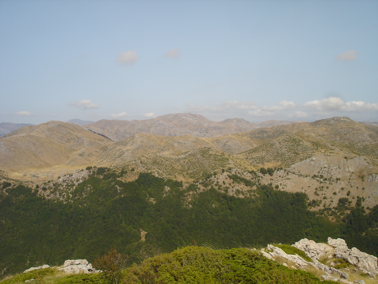 Bistra Mountain, Macedonia